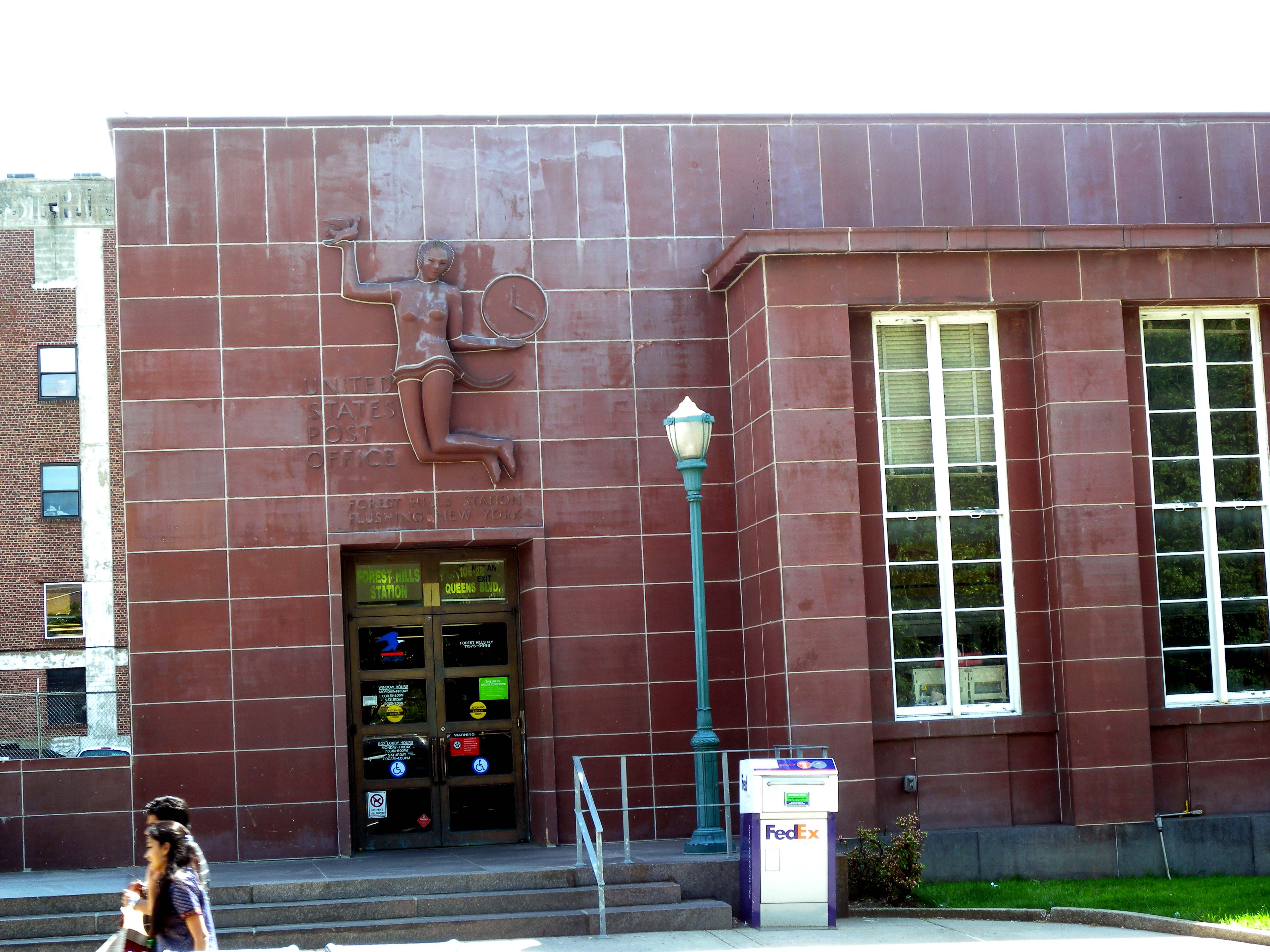 Looking south from Queens Boulevard at Forest Hills Post Office on a sunny midday.